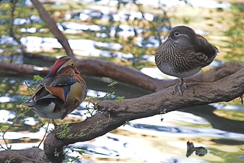 "Presentiment of love". Mandarin ducks (Aix galericulata) in Japan. (Kiraku ni Torimi)